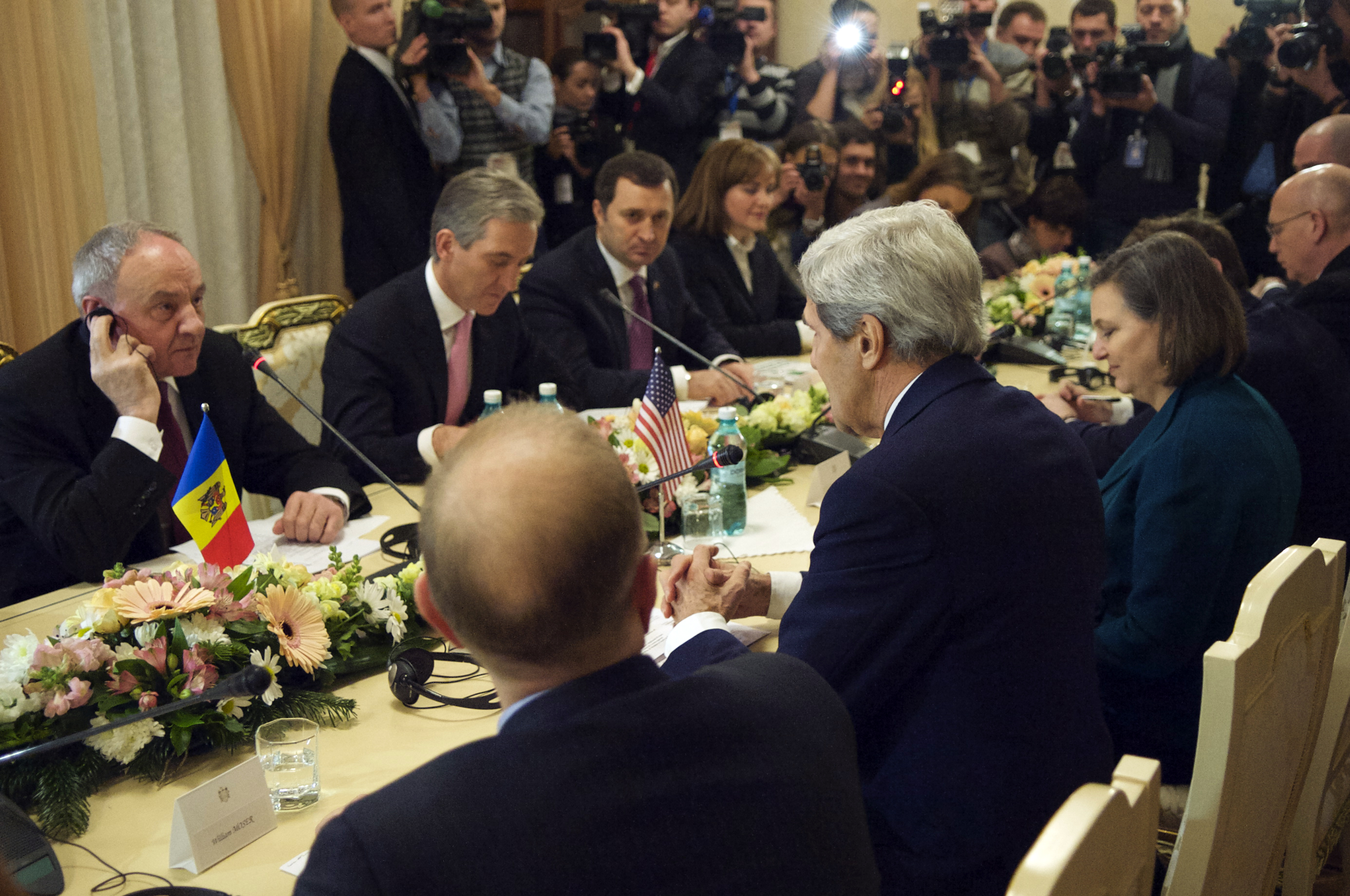 U.S. Secretary of State John Kerry addresses Moldovan President Nicolae Timofti, left, and Prime Minister Iurie Leanca, second from left, to start a bilateral meeting at the Presidential Residence in Chisinau, Moldova, on December 4, 2013. [State Department photo/ Public Domain]